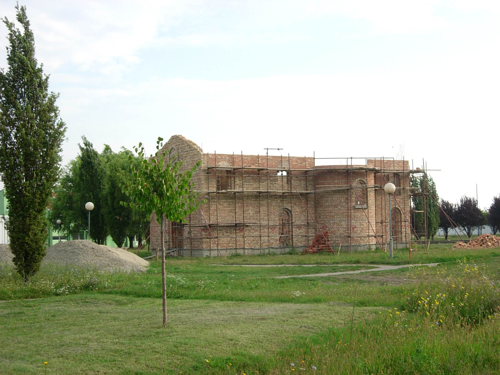 The new Orthodox church under construction in Novi Kozarci.